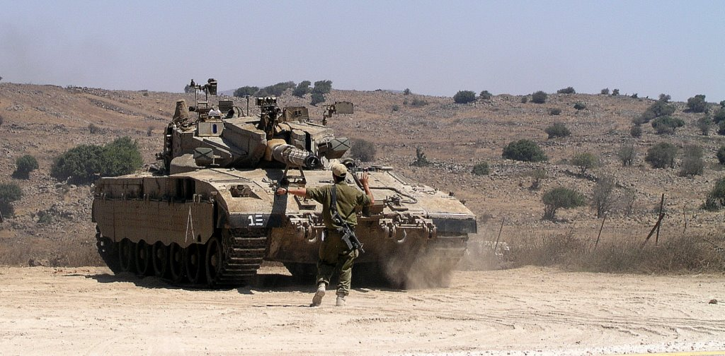 Merkava Mk2 tank